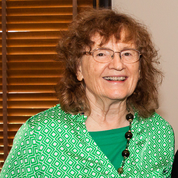 Emeritus Professors Alleen and Don Nilsen with Humor Award recipient Kali Lux